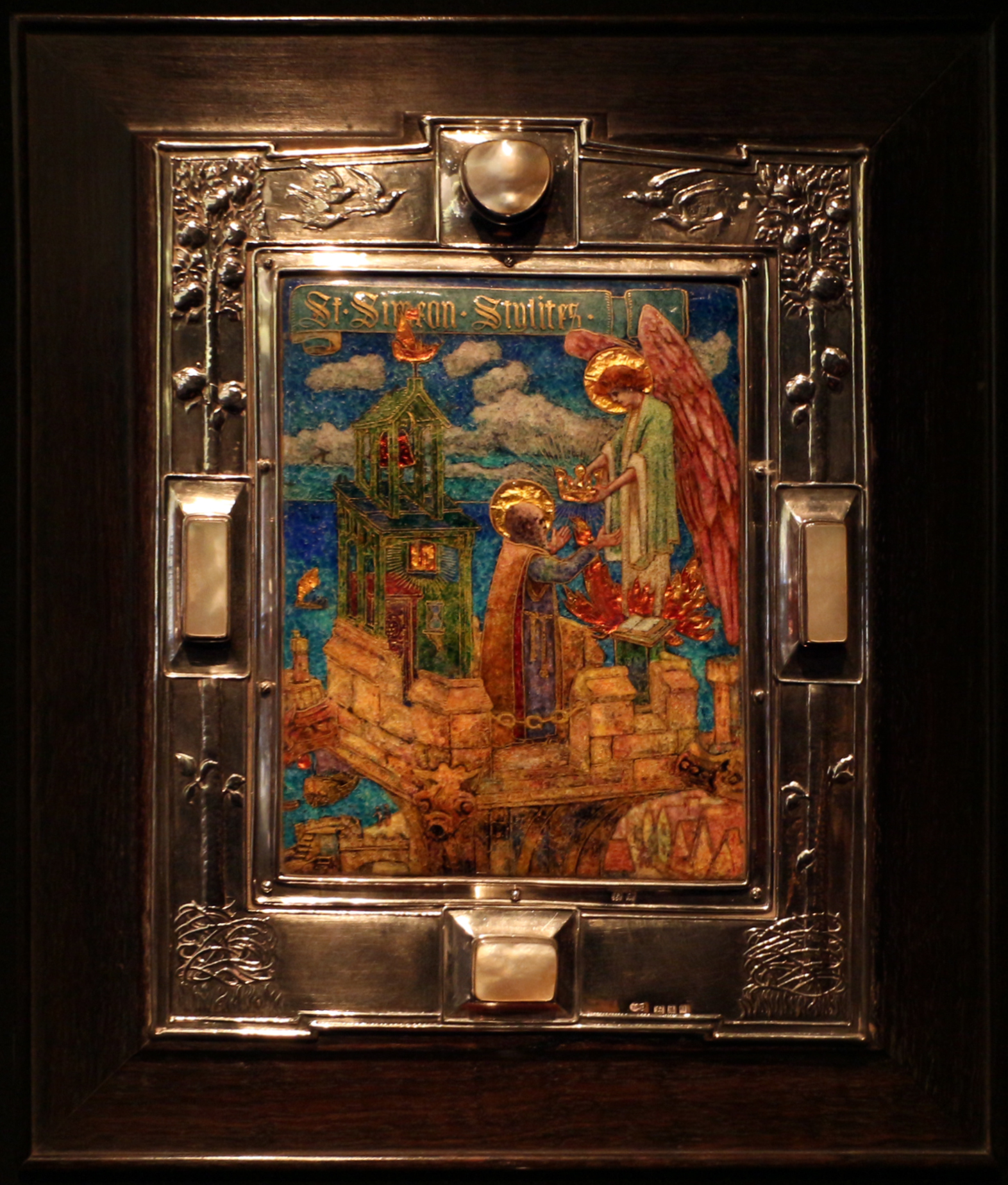 Courtesy of H. Blairman + Sons LTD (n. 183)